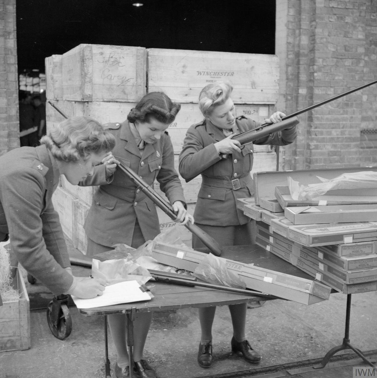 The British Army in the United Kingdom 1939-45 Members of the ATS (Auxiliary Territorial Service) at the Central Ordnance Depot at Weedon in Northamptonshire, unpacking Winchester rifles sent from the United States under the terms of Lease-Lend, 23 March 1942.